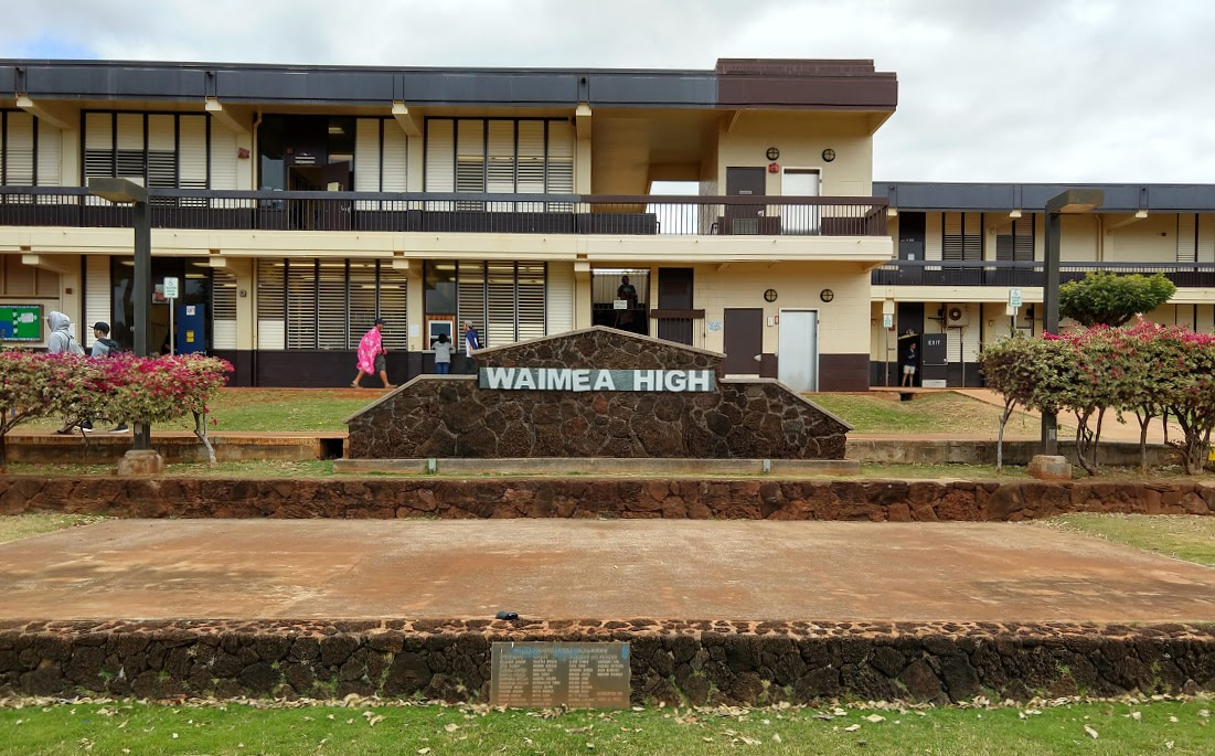 The front of Waimea High School on the island of Kauaʻi in the state of Hawaii. photo taken March 2019